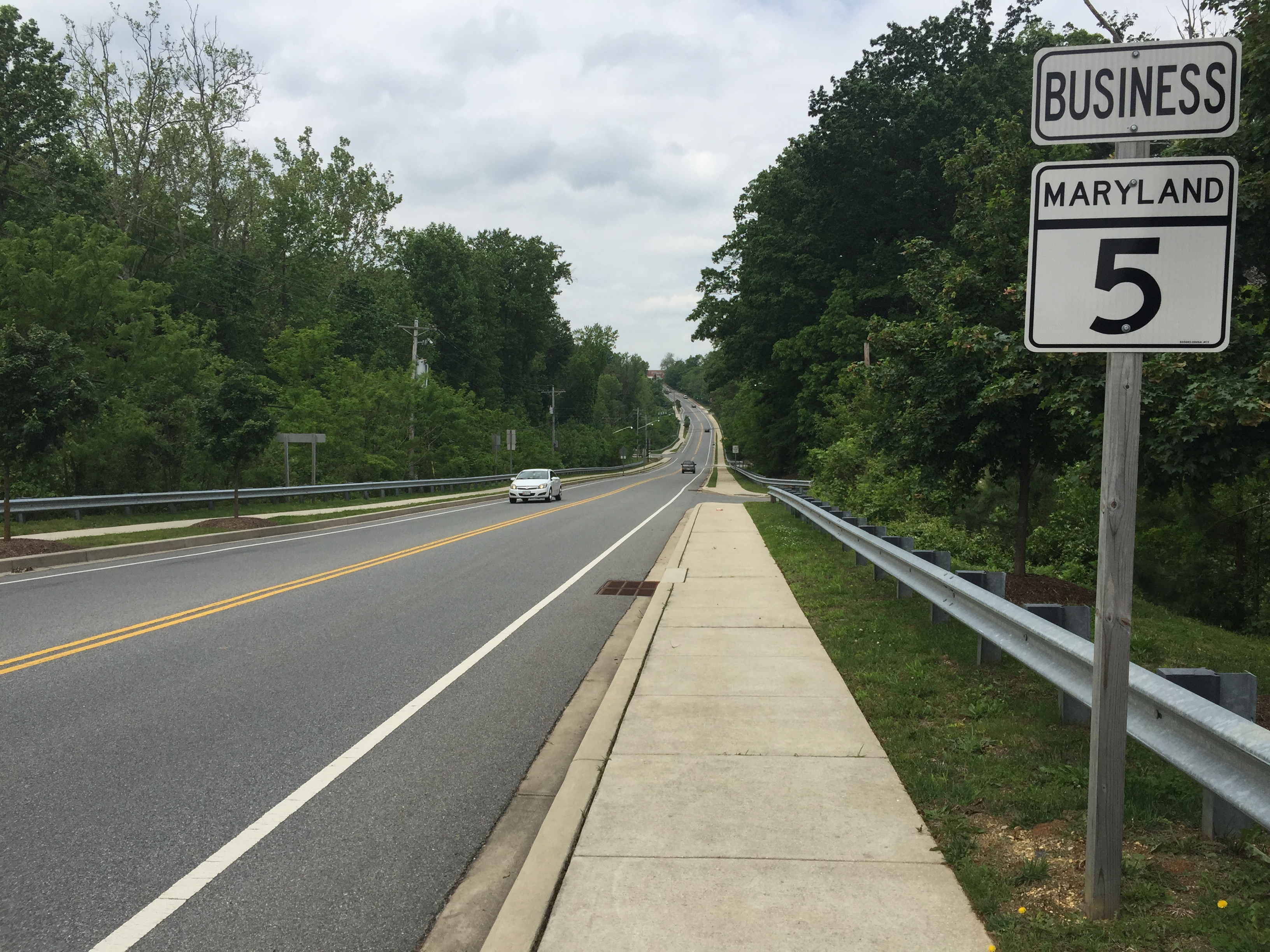 View west along Fenwick Street (Maryland State Route 5 Business) near Point Lookout Road (Maryland State Route 5) in Leonardtown, St. Mary's County, Maryland